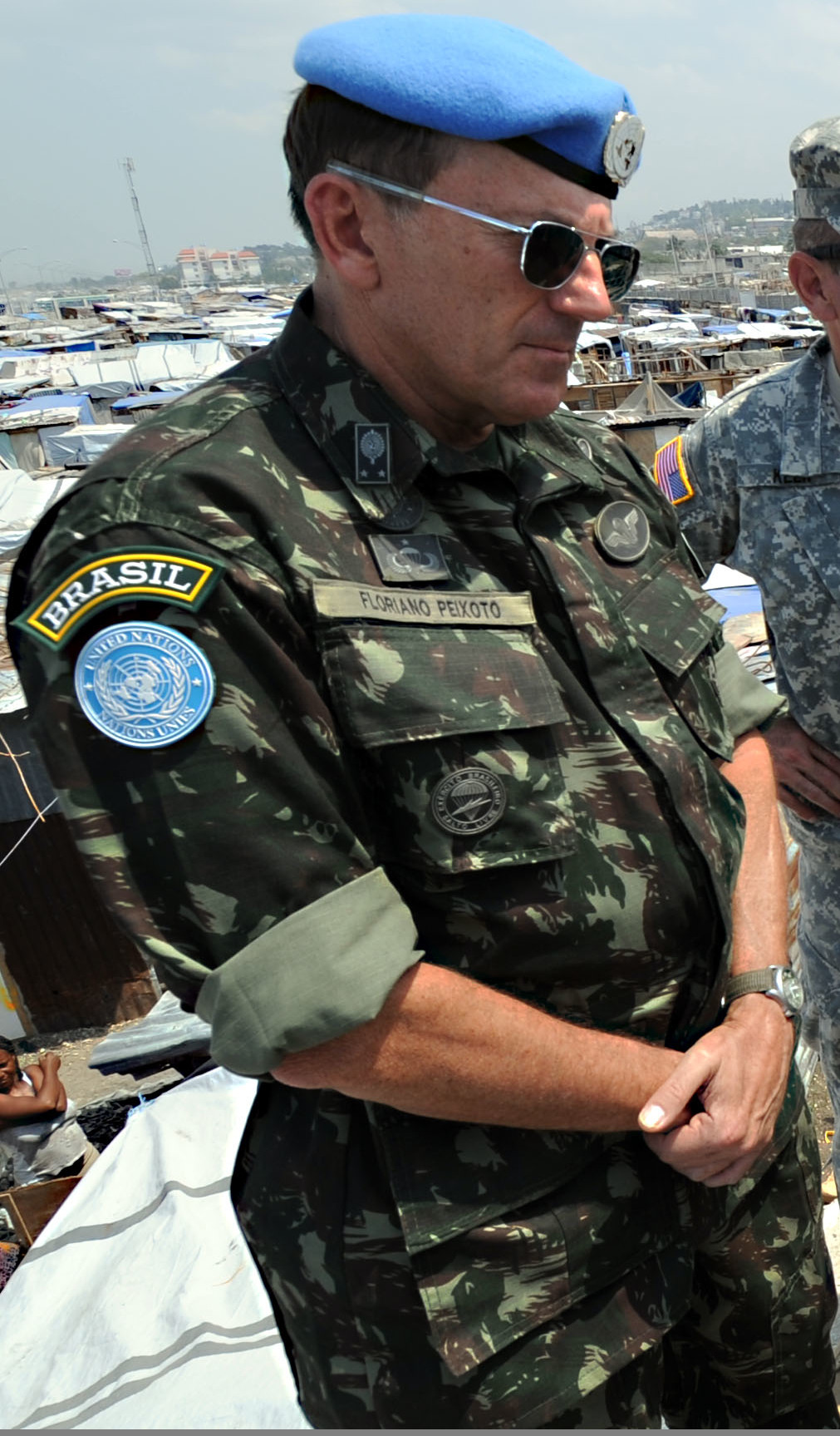 Brazilian military Gen. Floriano Peixoto, commander of United Nations Stabilization Mission in Haiti, and U.S. Army Lt. Gen. P.K. Keen, deputy commander of U.S. Southern Command and commanding general of Joint Task Force-Haiti, talk with the camp leader of the Ancien Aeroport Militaire internally displaced persons camp in Port-au-Prince, Haiti.